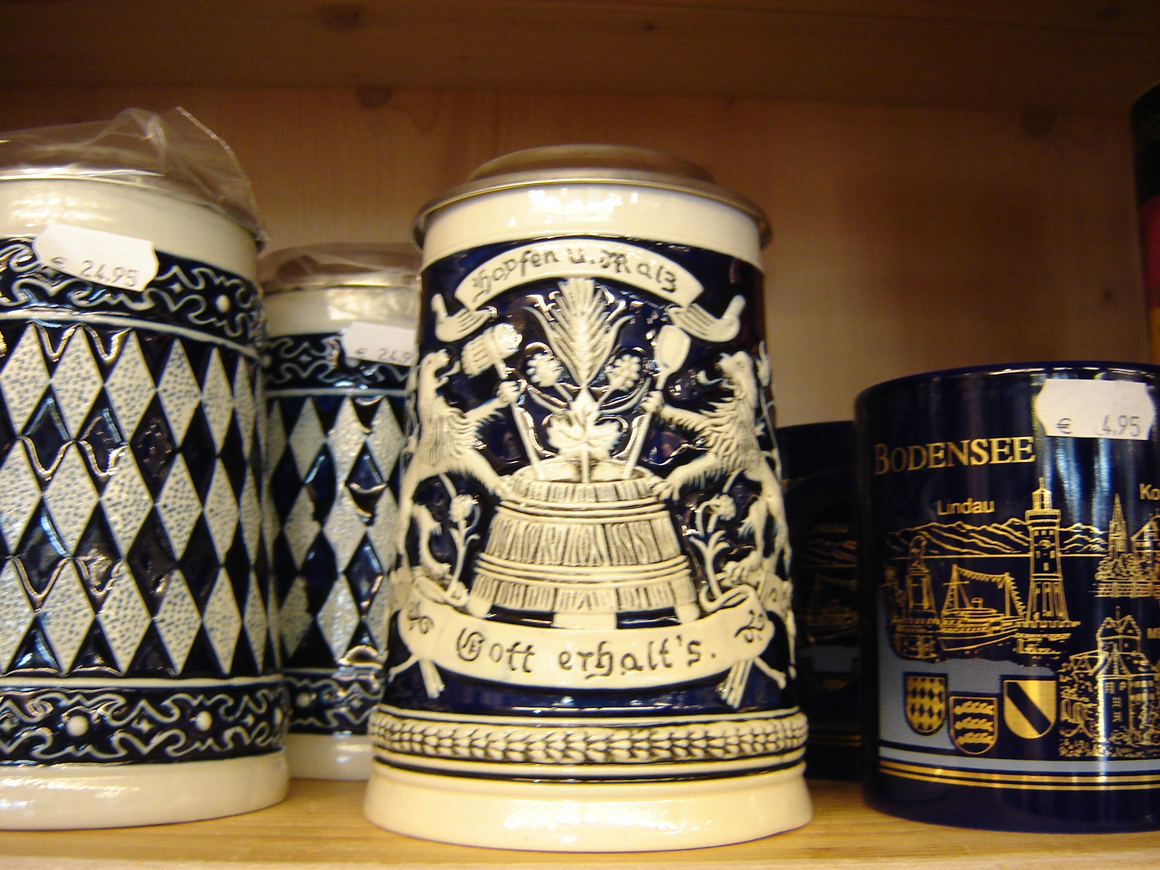 This is a beer stein from a gift shop in Meersburg. The text reads "Hopfen u. Malz / Gott erhalt's" meaning "Hops and malts / god preserve them".